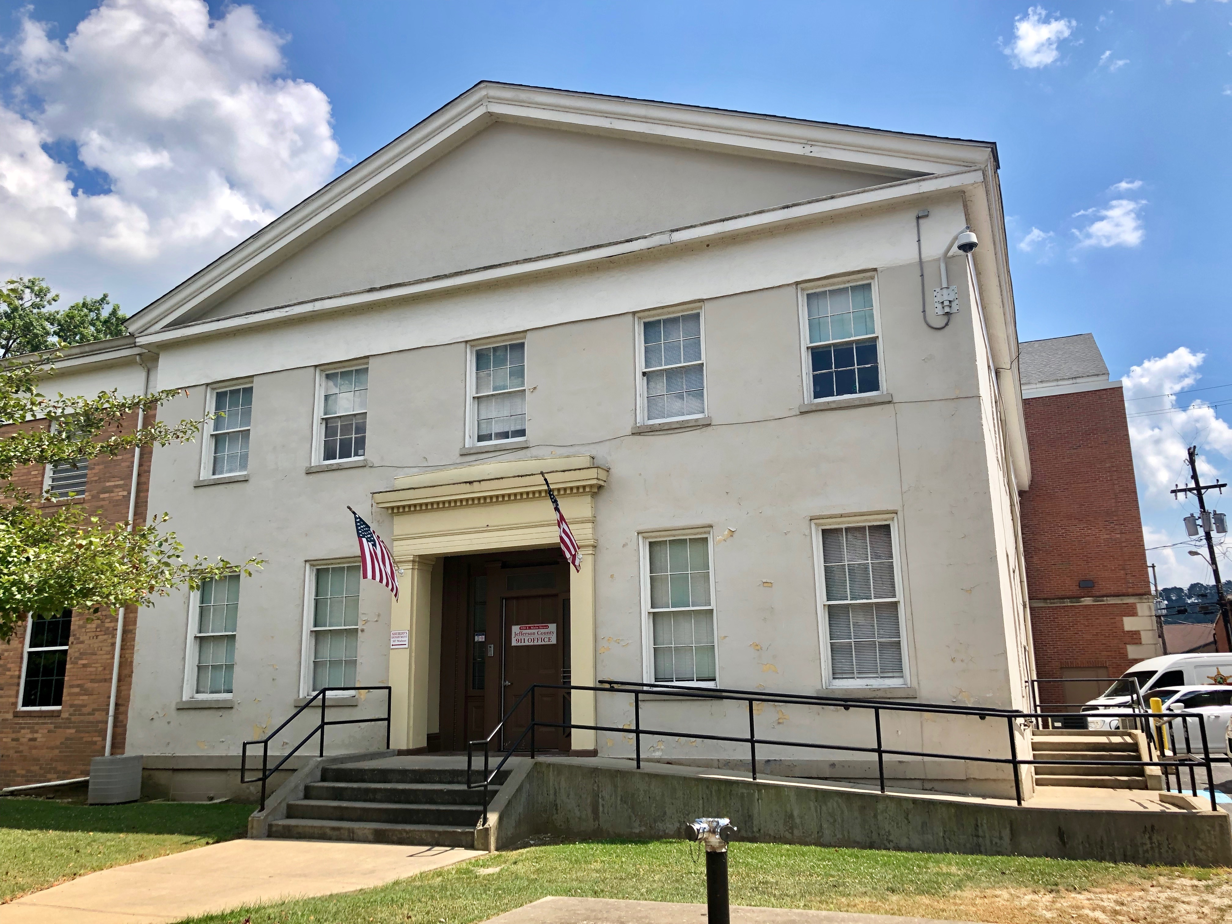 Main Street, Madison, IN